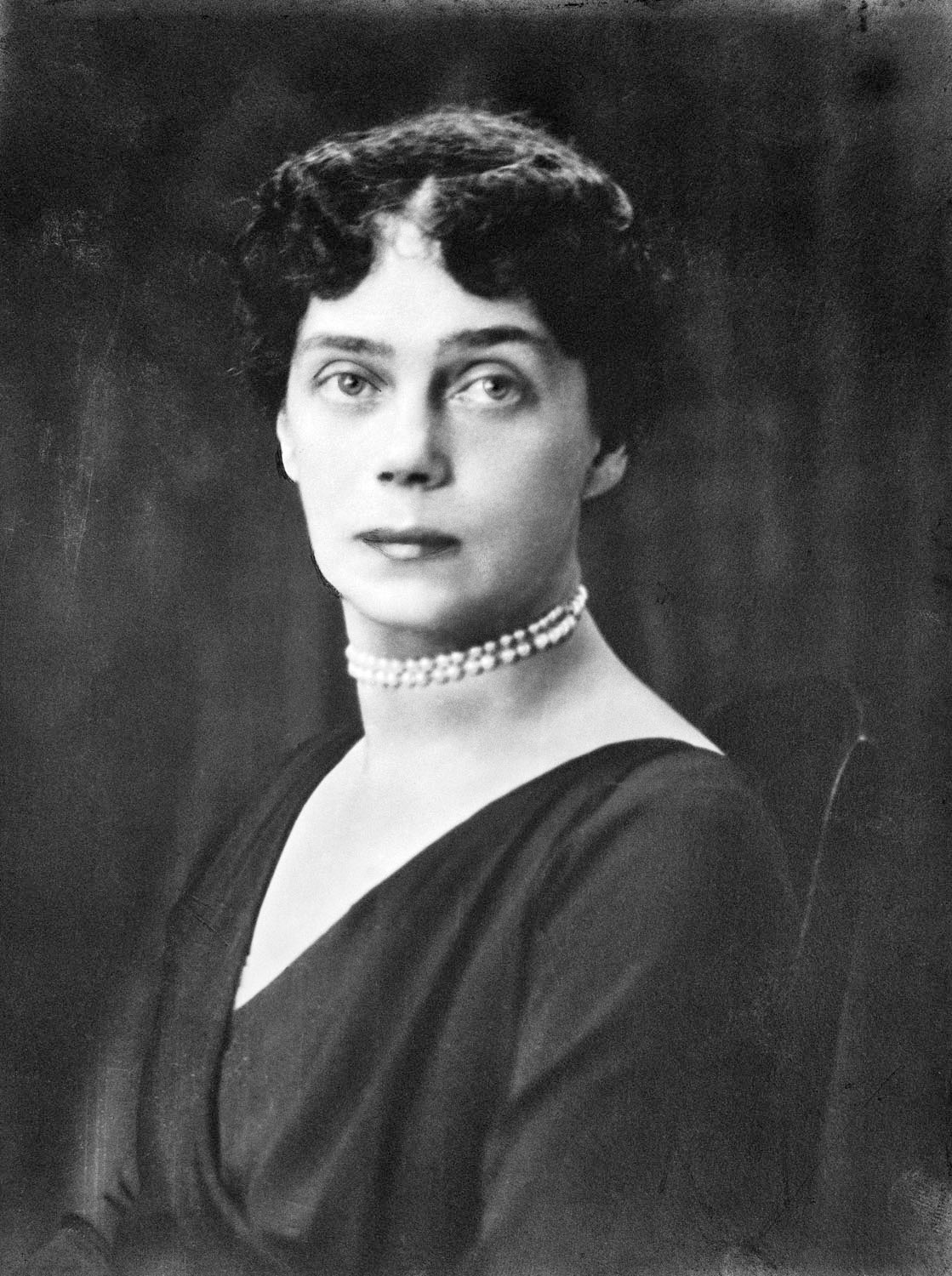 Grand Duchess Xenia Alexandrovna (1875–1960)